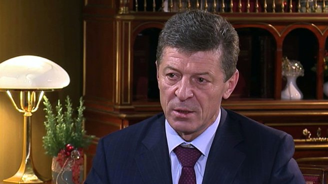 Dmitry Kozak during TV interview, January 13, 2014.